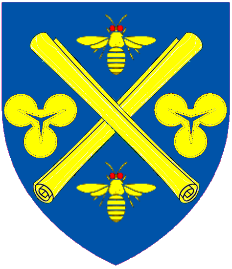 Shield of arms of The Lord Harmsworth